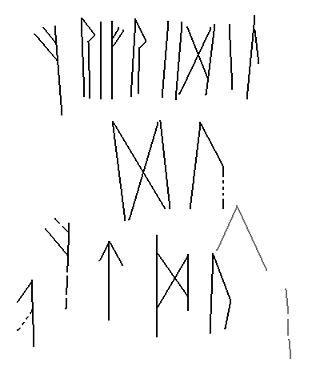 Drawing of the Bülach fibula inscription; based on photo in Martin, Max (1997); "Schrift aud dem Norden: Runen in der Alamannia - Archäologisch Betrachtet" in "Die Alemannen" Stuttgart: Theiss, pp. 499-502